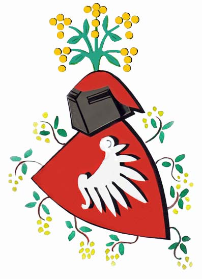 This is a reproduction of the coat of arms of the breberienses clan, i made it by myself, and I took the photo of it, and after I uploaded it in my PC, there is no copyright on this work.